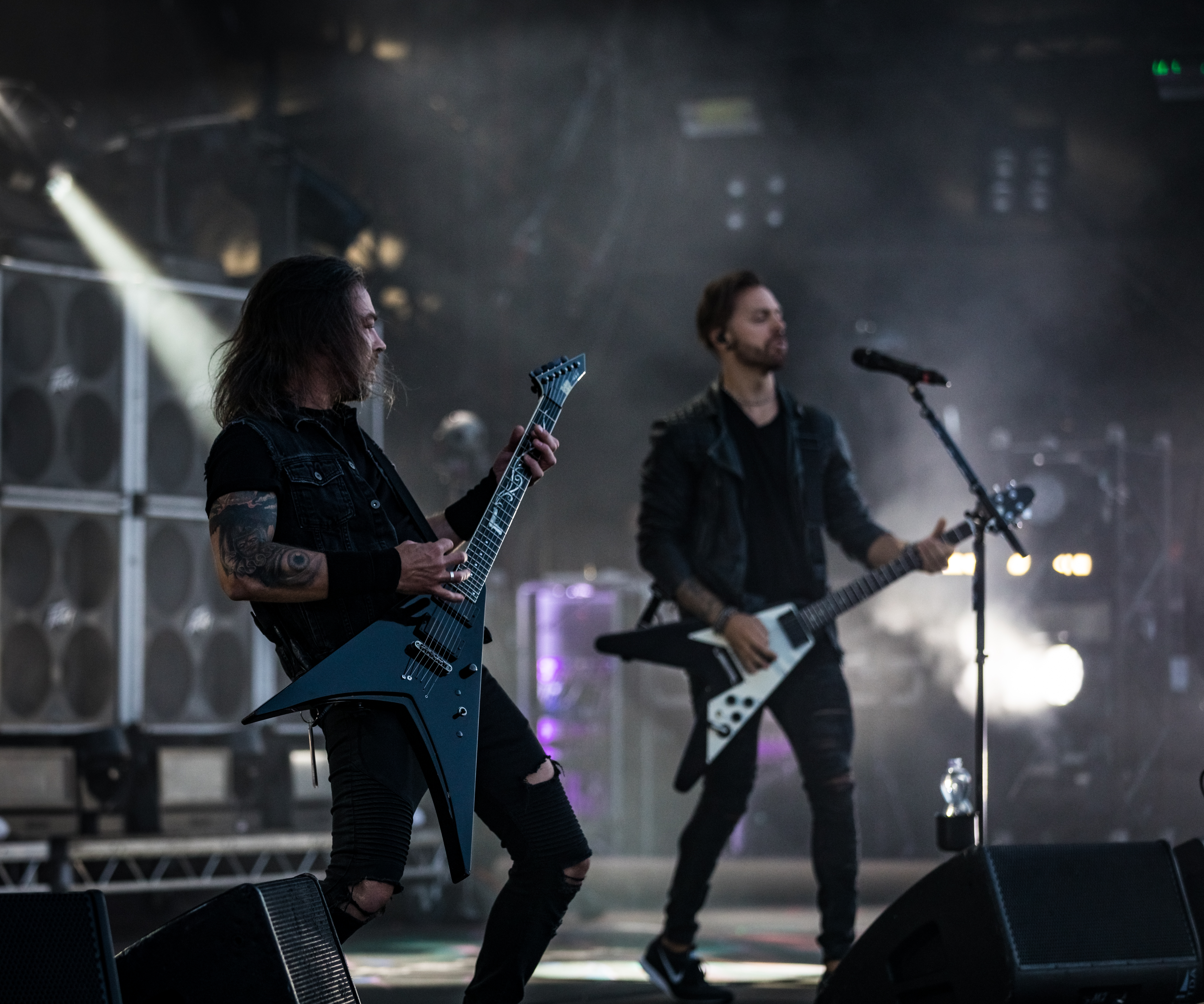 Bullet for My Valentine - Rock am Ring 2018